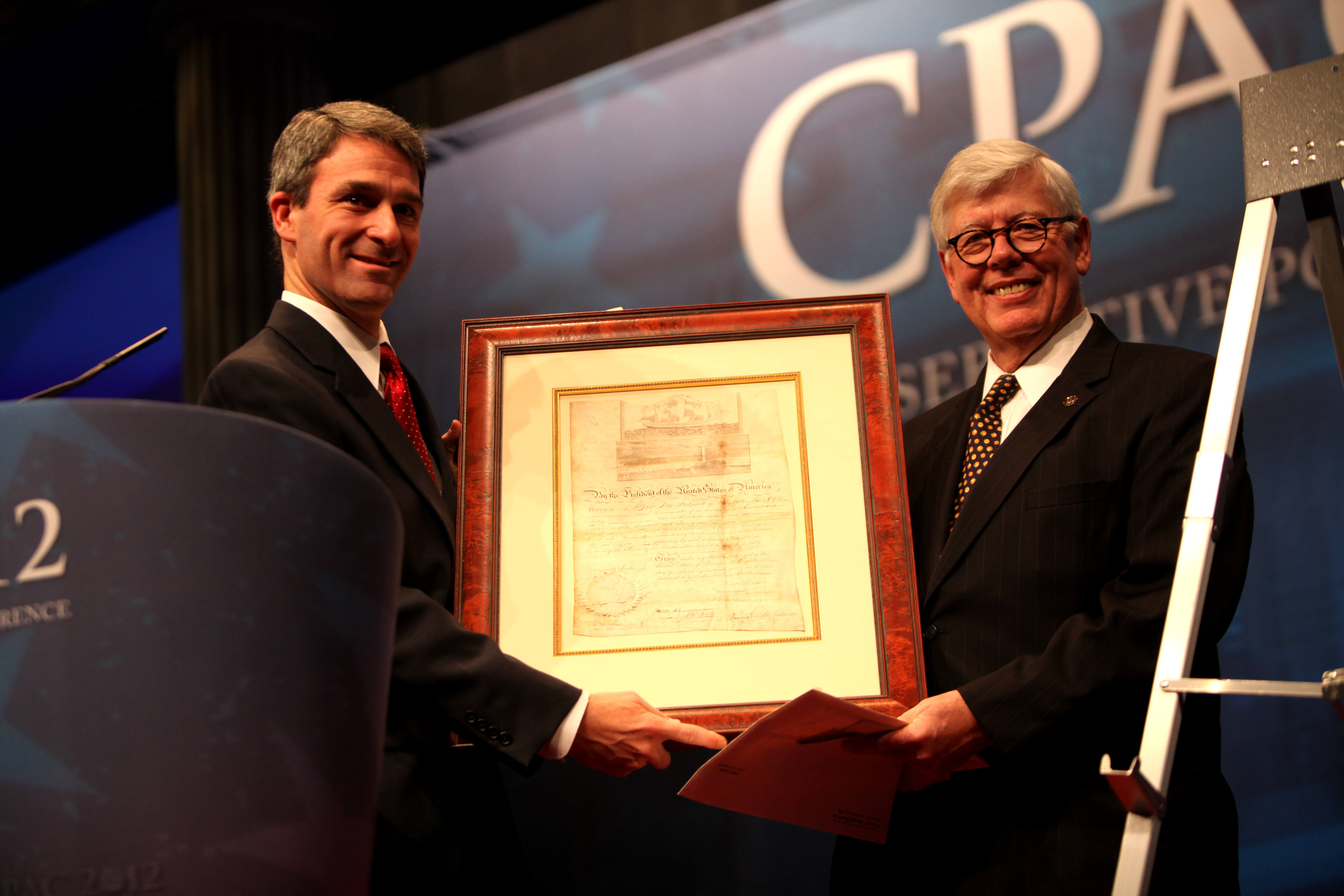 Ken Cuccinelli and David Keene speaking at CPAC in Washington D.C. on February 10, 2012.